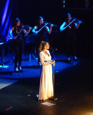 Leona Lewis, The First Time Ever I Saw Your Face, Royal Albert Hall, 9th May, Glassheart Tour 2013